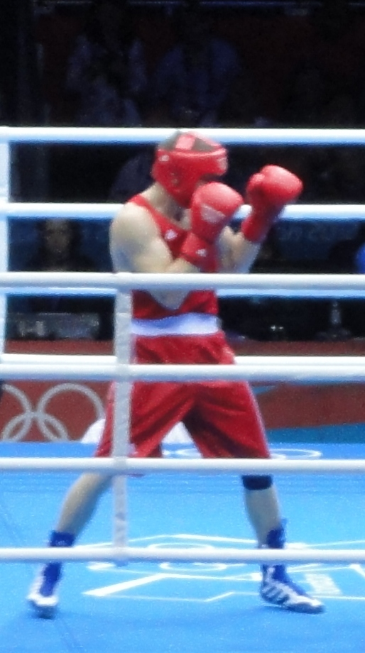 Soltan Migitinov (AZE, red) and Esquiva Falcão Florentino (BRA, blue) in their men's middleweight round of 16 bout at the 2012 Summer Olympics.